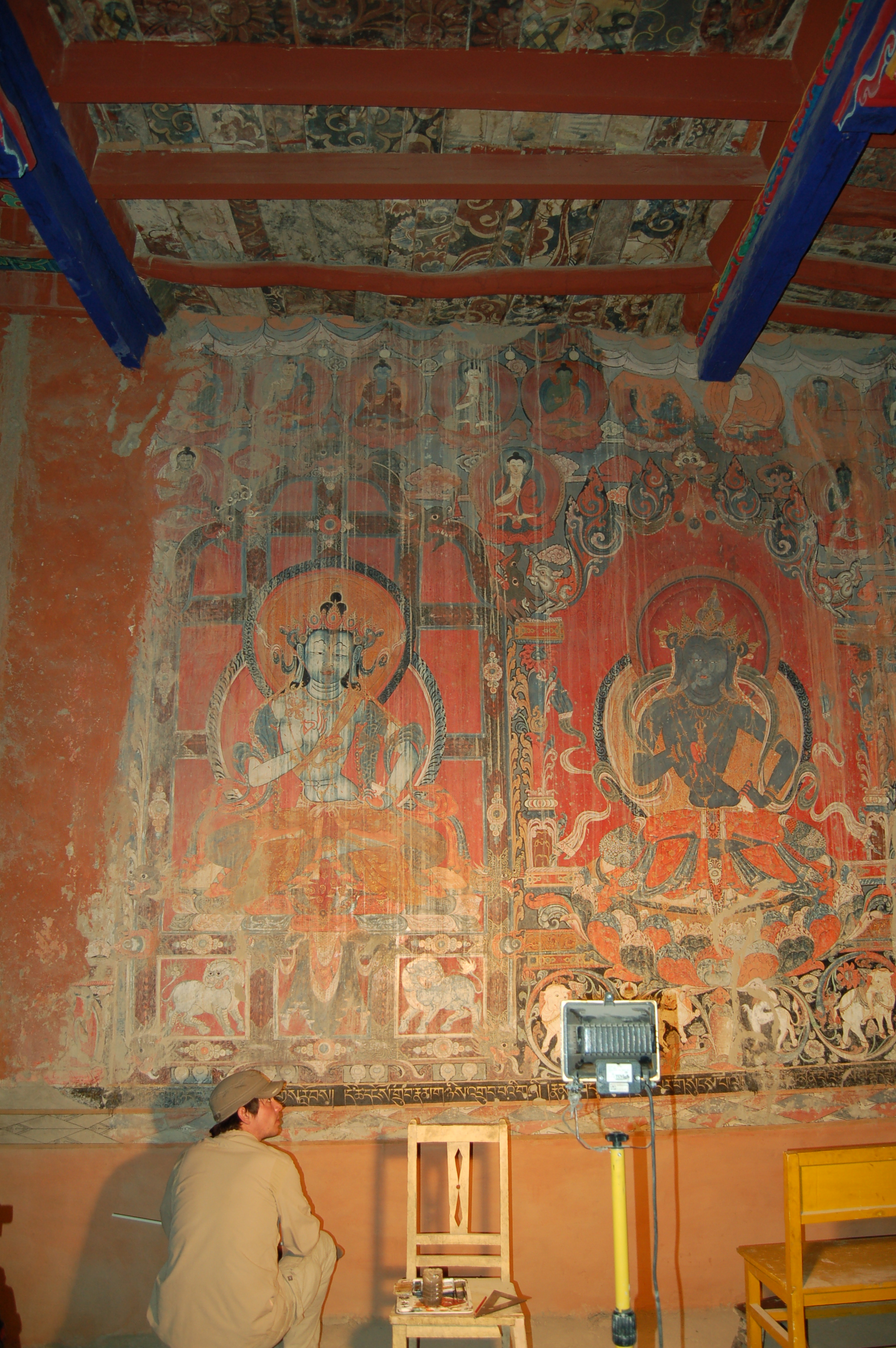 Unter schweizer Führung durchgeführte Restaurierung der Wandgemälde des Weißen Tempels im Tholing Kloster (Tibet)